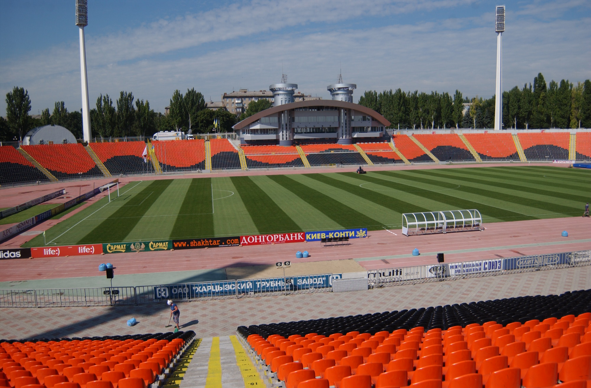 RSC Olimpiyskyi in Donetsk, Ukraine